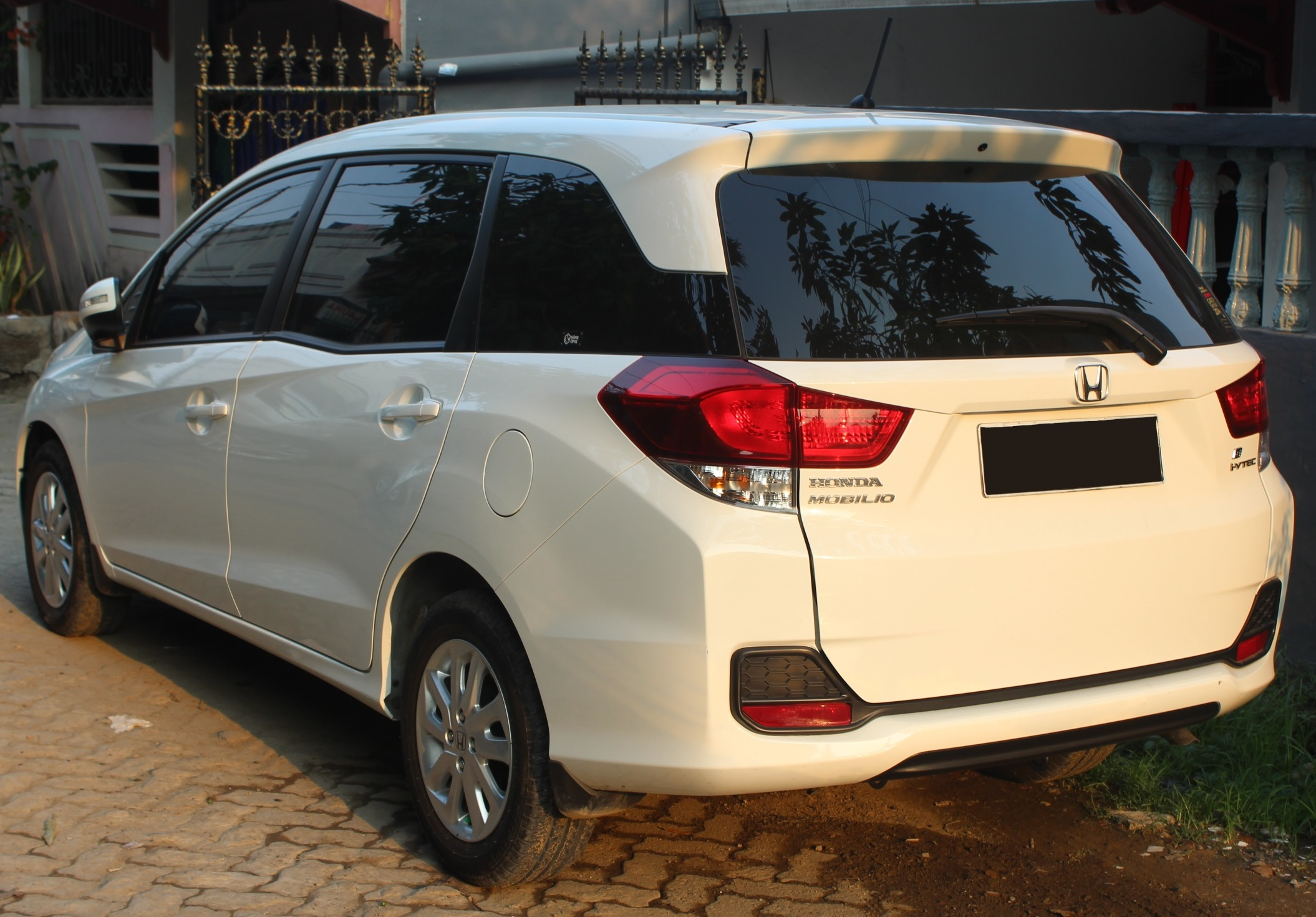 A Honda Mobilio E photographed in Dadap, Banten, Indonesia on June 2, 2015.